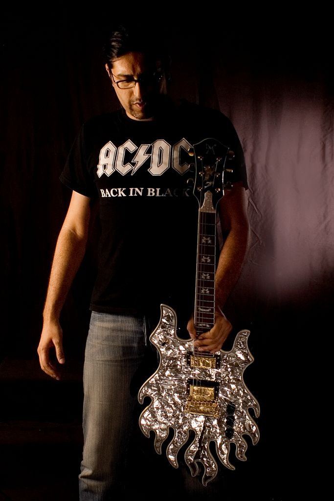 Assad Ahmed